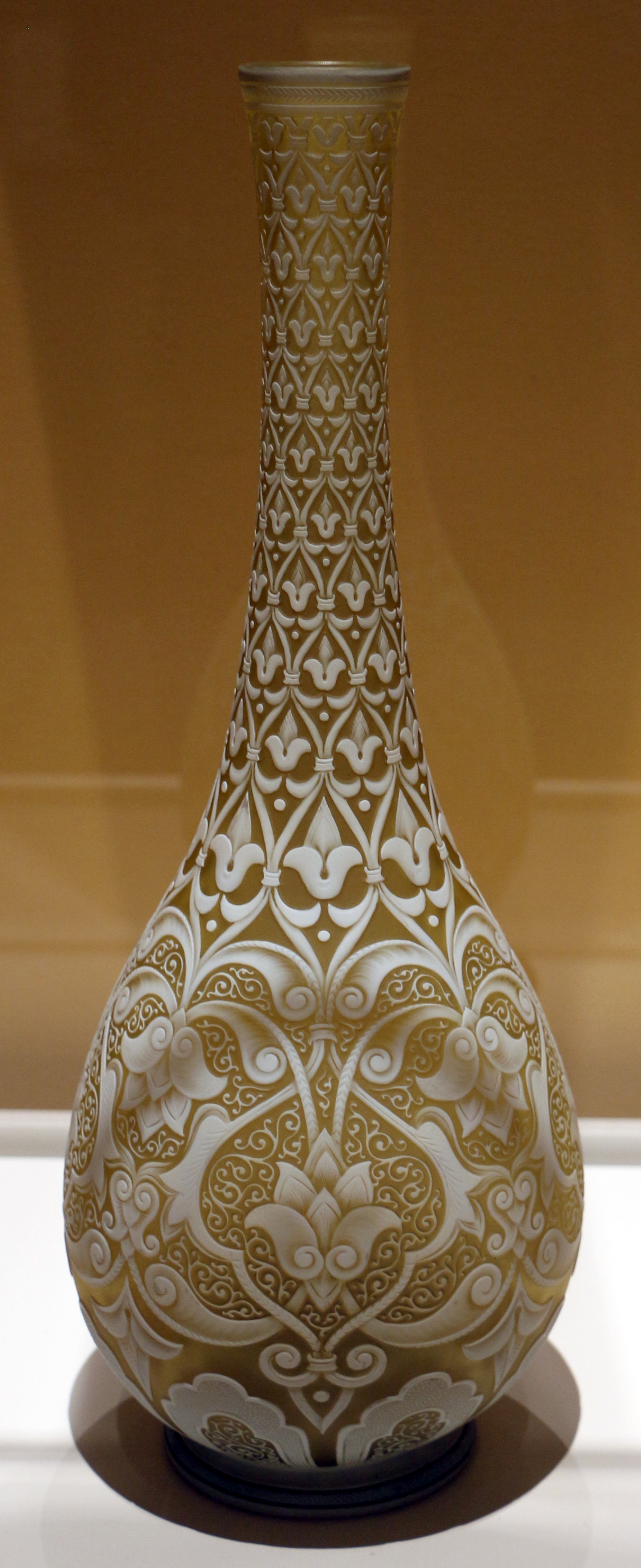 Glassware in the Milwaukee Art Museum